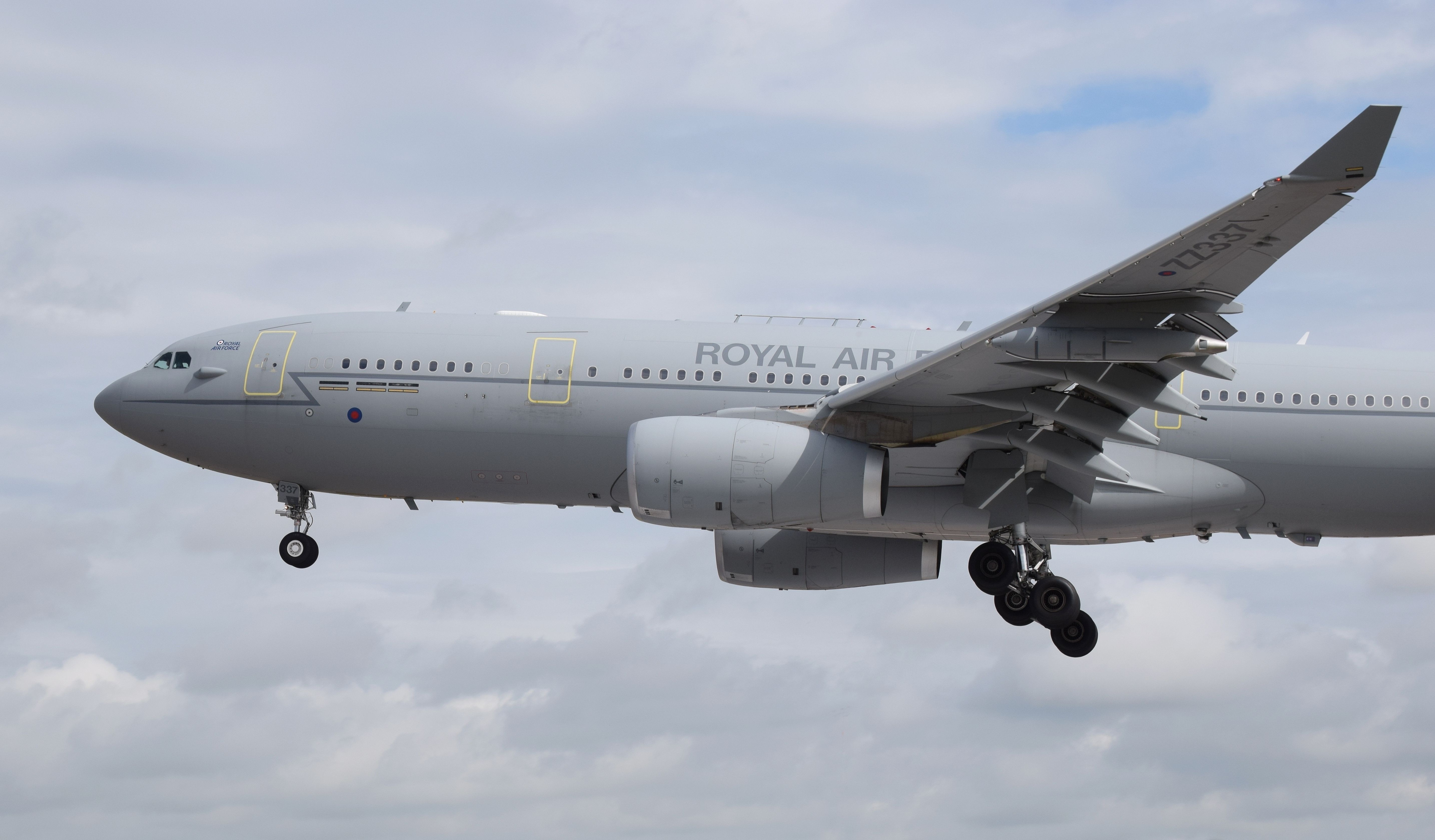 Airbus Voyager KC2 (ZZ337) of the Royal Air Force arrives at the 2016 Royal International Air Tattoo, RAF Fairford, England. The manufacturer's name for the model is Airbus A330 MRTT. MRTT means Multi-Role Tanker Transport. The aircraft is owned by AirTanker, a consortium who operate and maintain the RAF Voyager fleet.